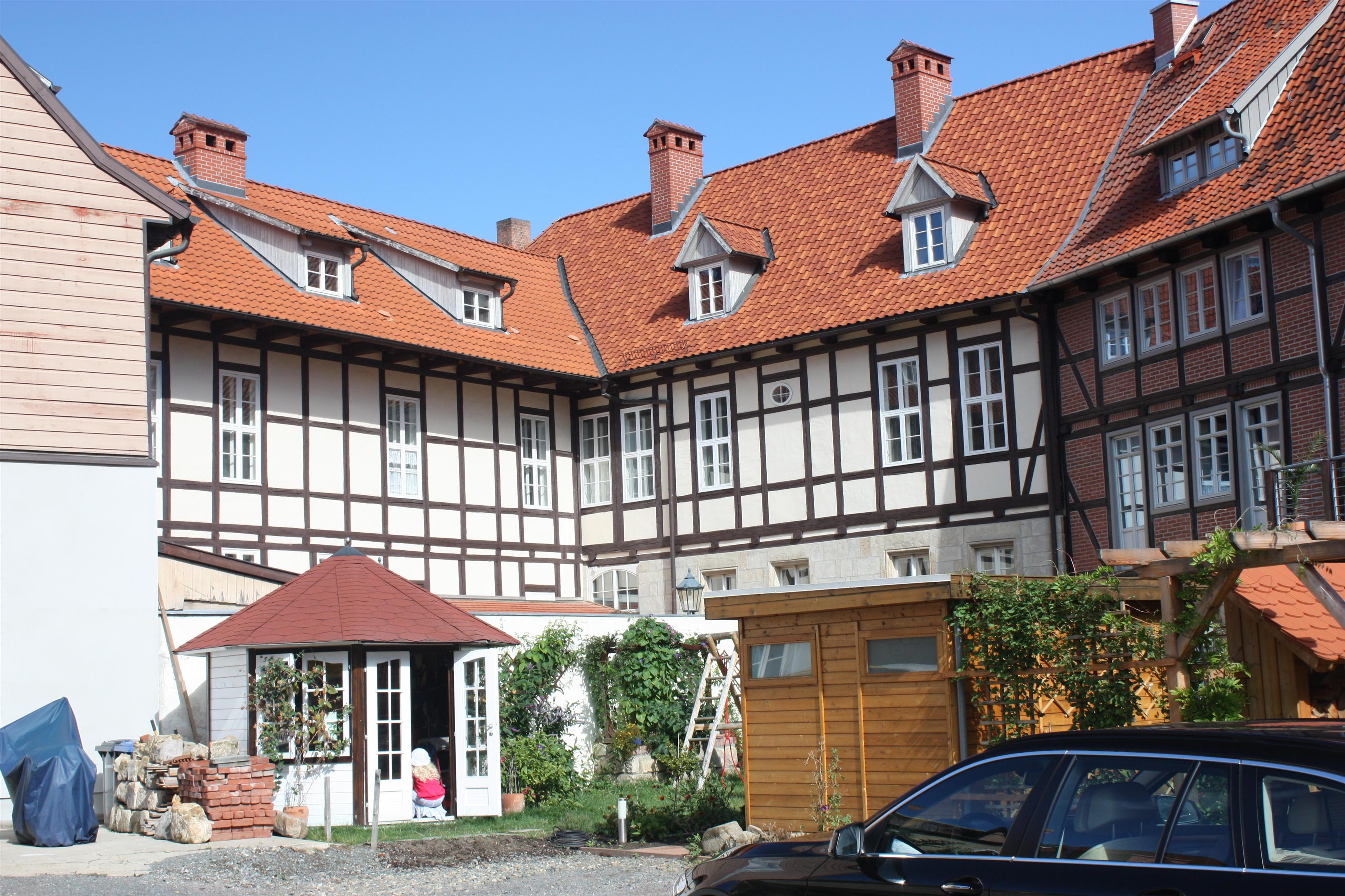 This is a photograph of an architectural monument.It is on the list of cultural monuments of Quedlinburg Quedlinburg Lange Gasse